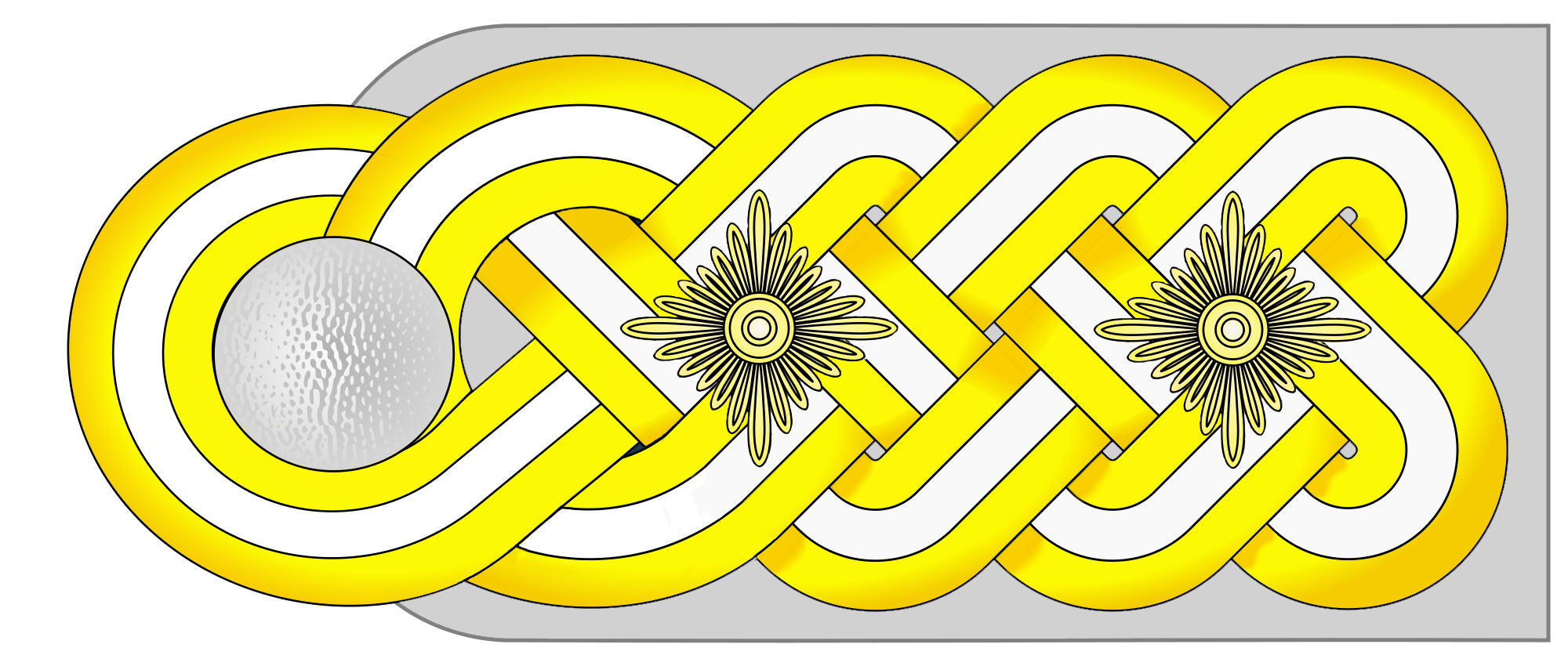 Rang insignia shoulder strap, here “SS-Obergruppenfuehrer and General of the Waffen-SS” (today comparable to NATO OF-8) until 1945.